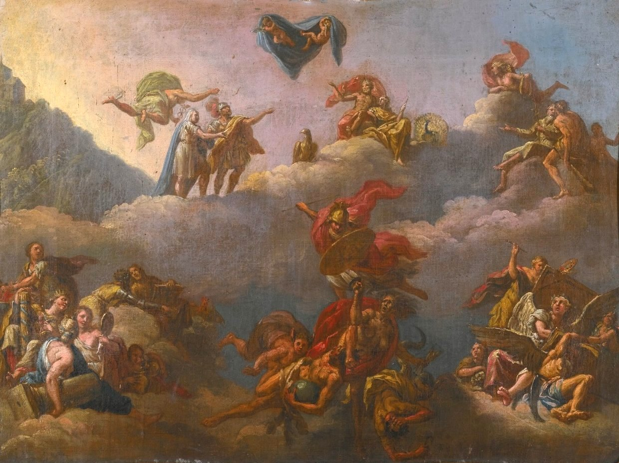 An Allegorical Scene of Russia Partaking in the Bounties of Civilization, oil on canvas, 48.9 by 64.8 cm